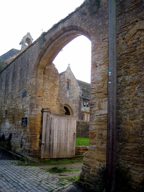 Priory gateway - Stoke sub Hamdon Through the massive gateway one catches a glimpse of the 14th century Priest's House.